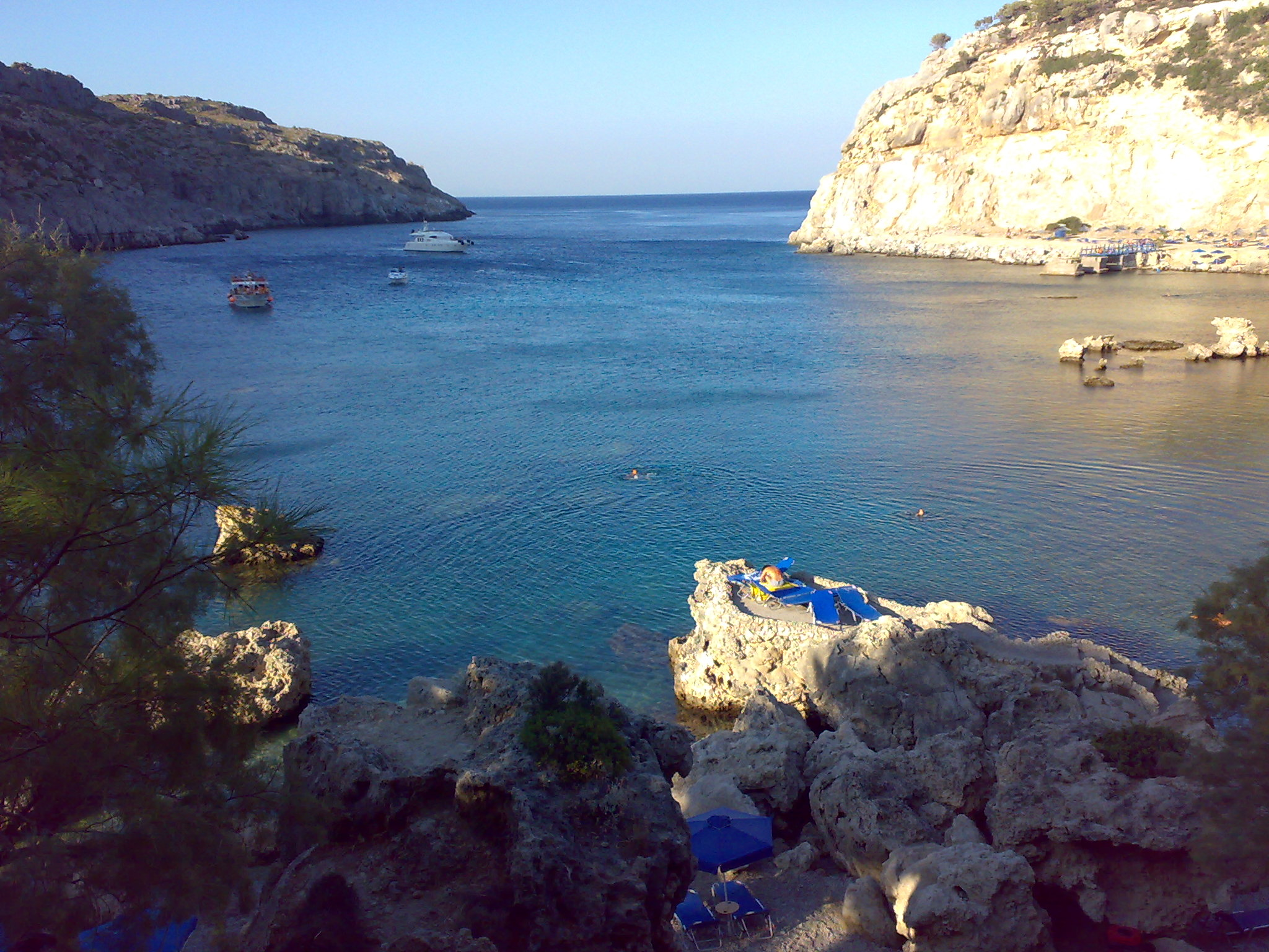 Anthony Quinn Bay at Rhodes.